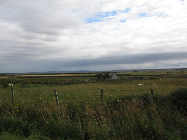 Strath of Harpsdale A view looking to the south towards the farm buildings at Strath of Harpsdale.